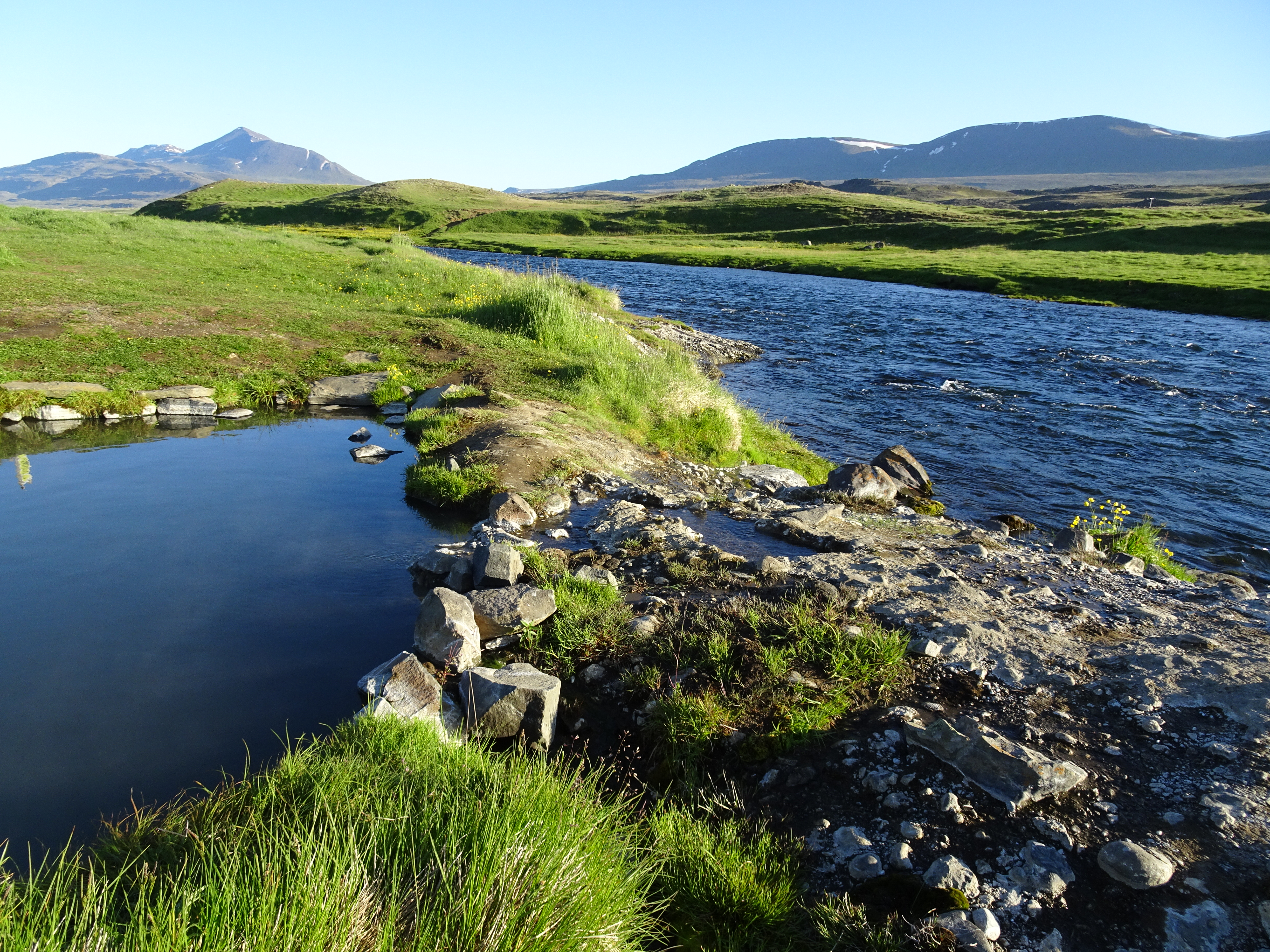 Fosslaug, a warmwater well not far from Reykjafoss, a waterfall in Northern Iceland.